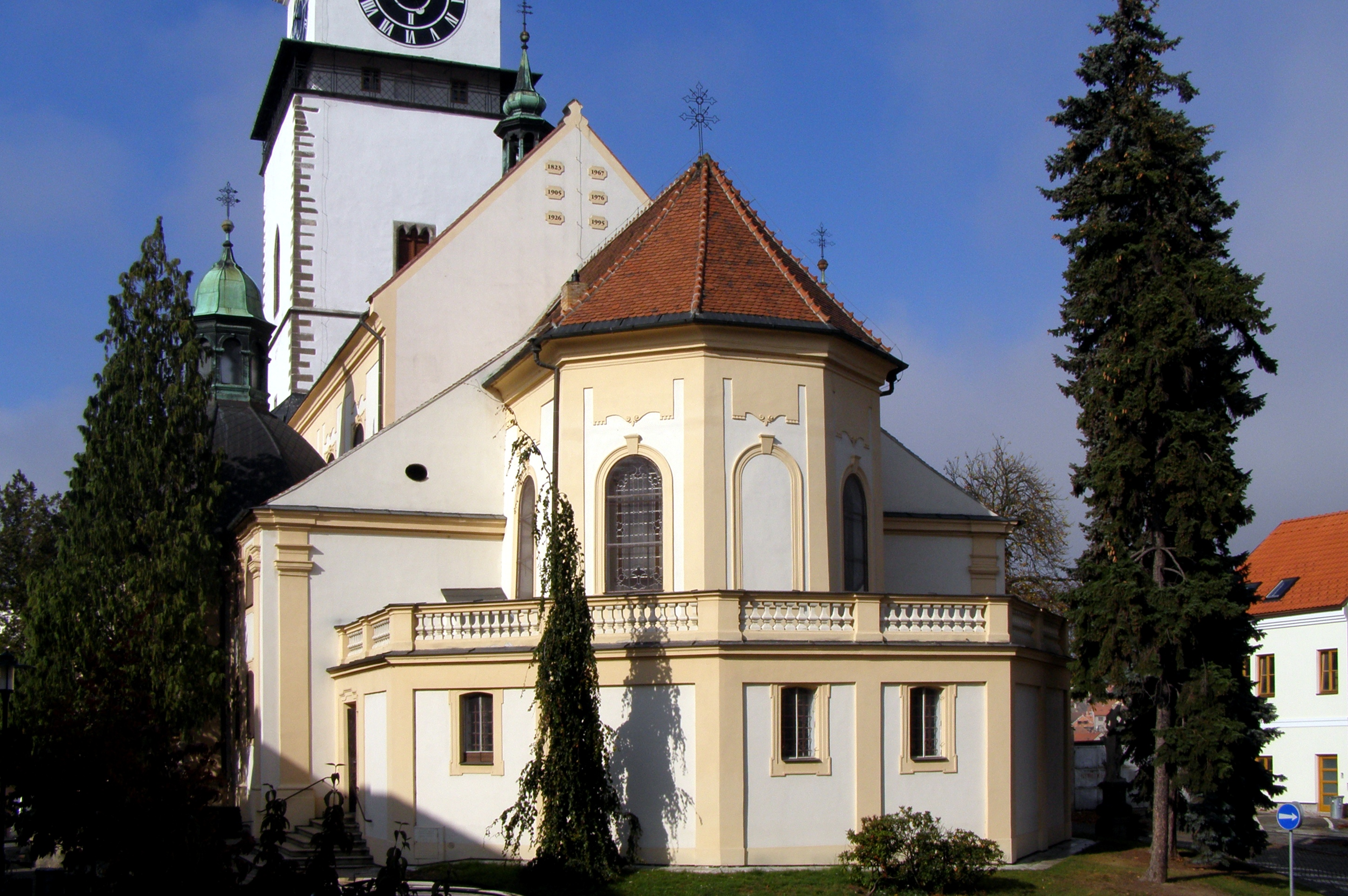 Třebíč-Vnitřní Město. St Martin Church